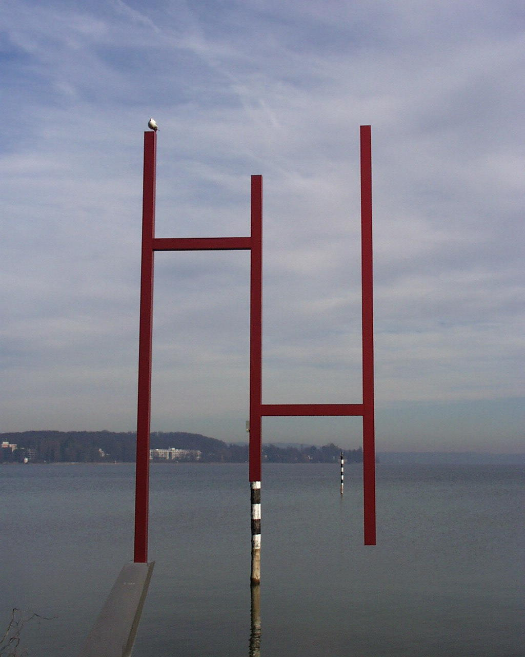 Johannes Dörflinger Kunstgrenze. After at Lake Constance the border fence between Konstanz / Germany and Kreuzlingen / Switzerland had been removed, artist Johannes Dörflinger made Tarot figures according to the Visconti Tarot. The Magus like in Rider Tarot.